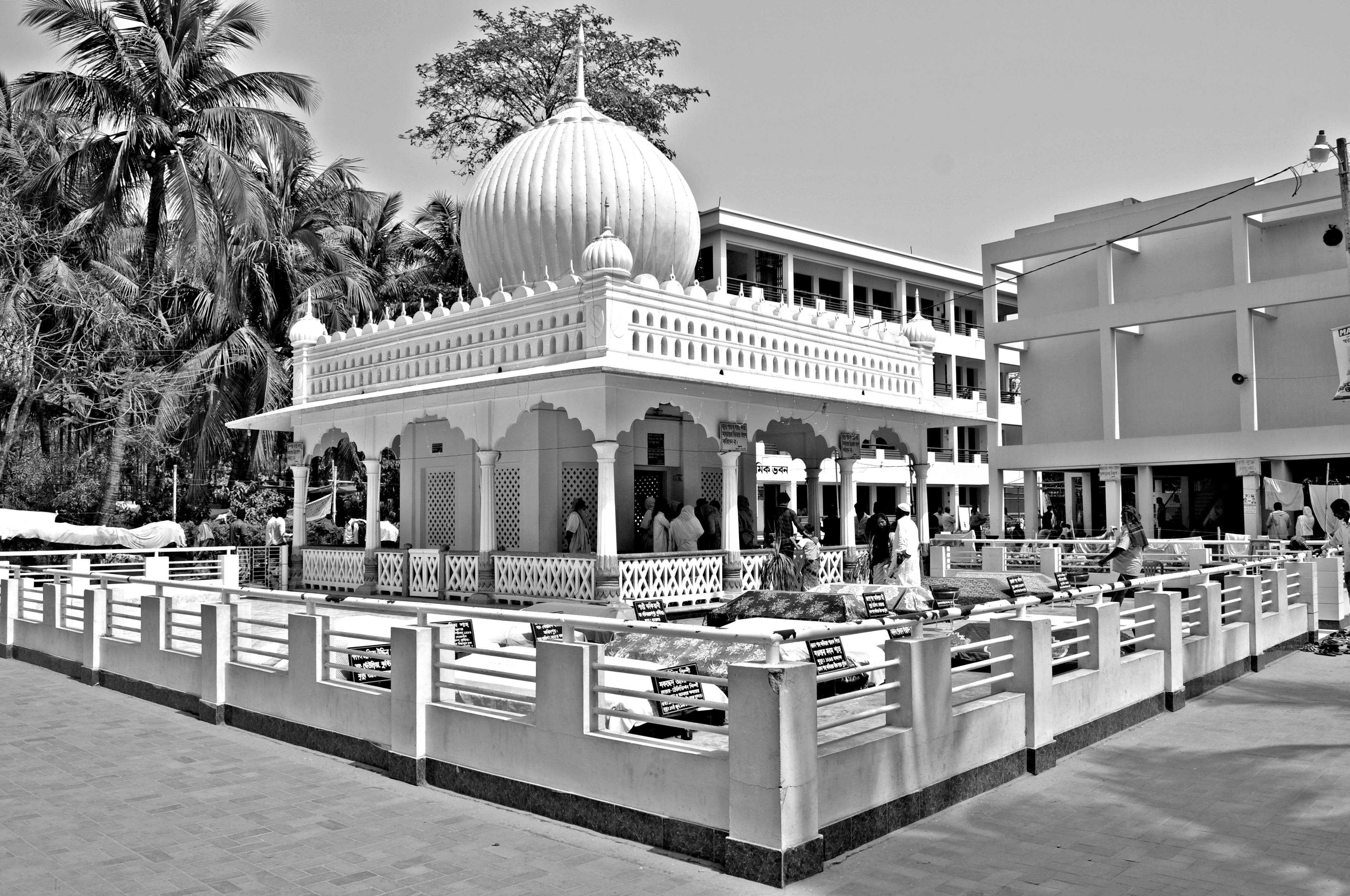 Tomb of Lalon, Kustia, Bangladesh.